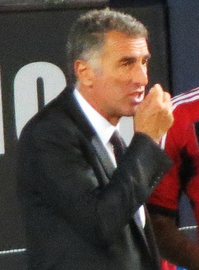 Assistant coach of A.C. Milan Mauro Tassotti coaching A.C. Milan.